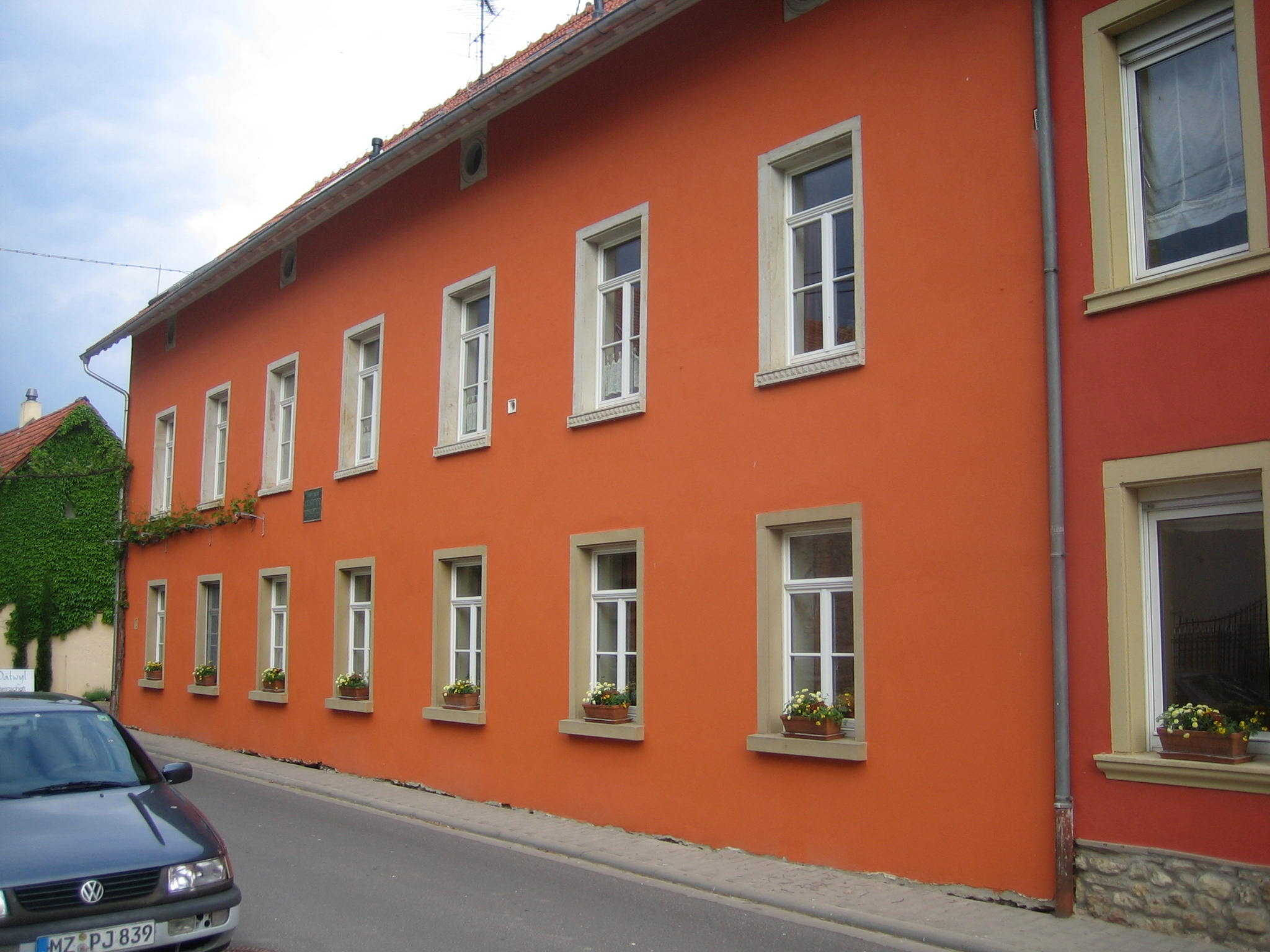 Christian Dettweilers birthplace in Wintersheim